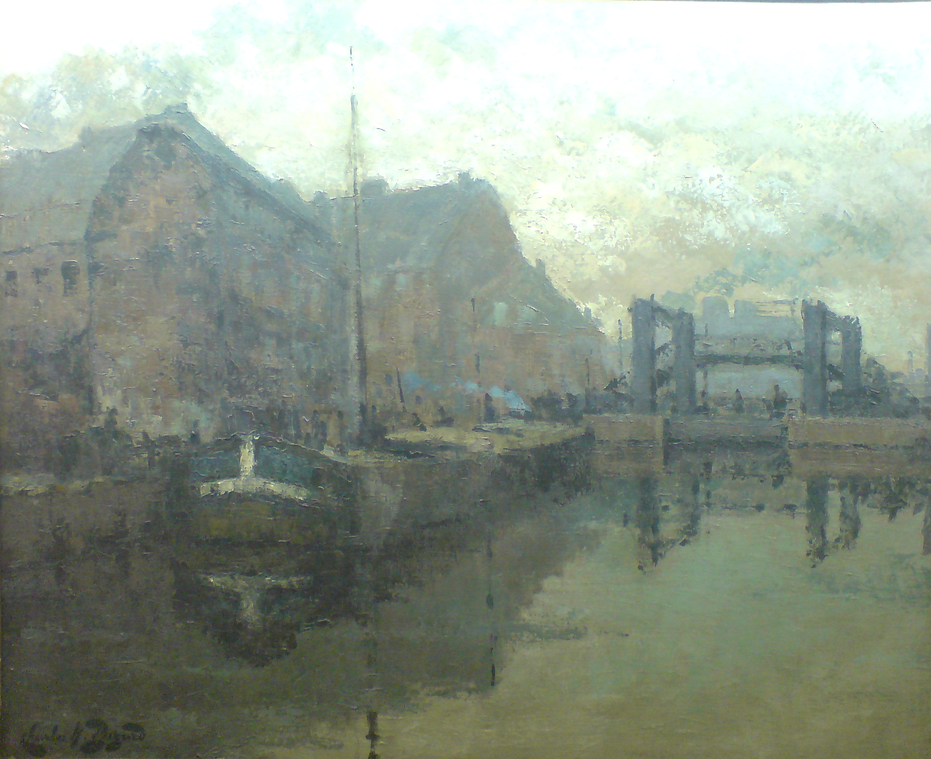 Photo of the Painting Le quai de Lorient et le pont Nikès à Roubaix by Charles-Henri Bizard (1887-1954), painted before 1936 and displayed in the Musée d'Art et d'Industrie in Roubaix, France